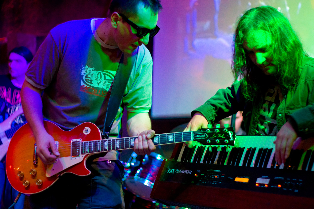 Los Potatos w Lizard King #1